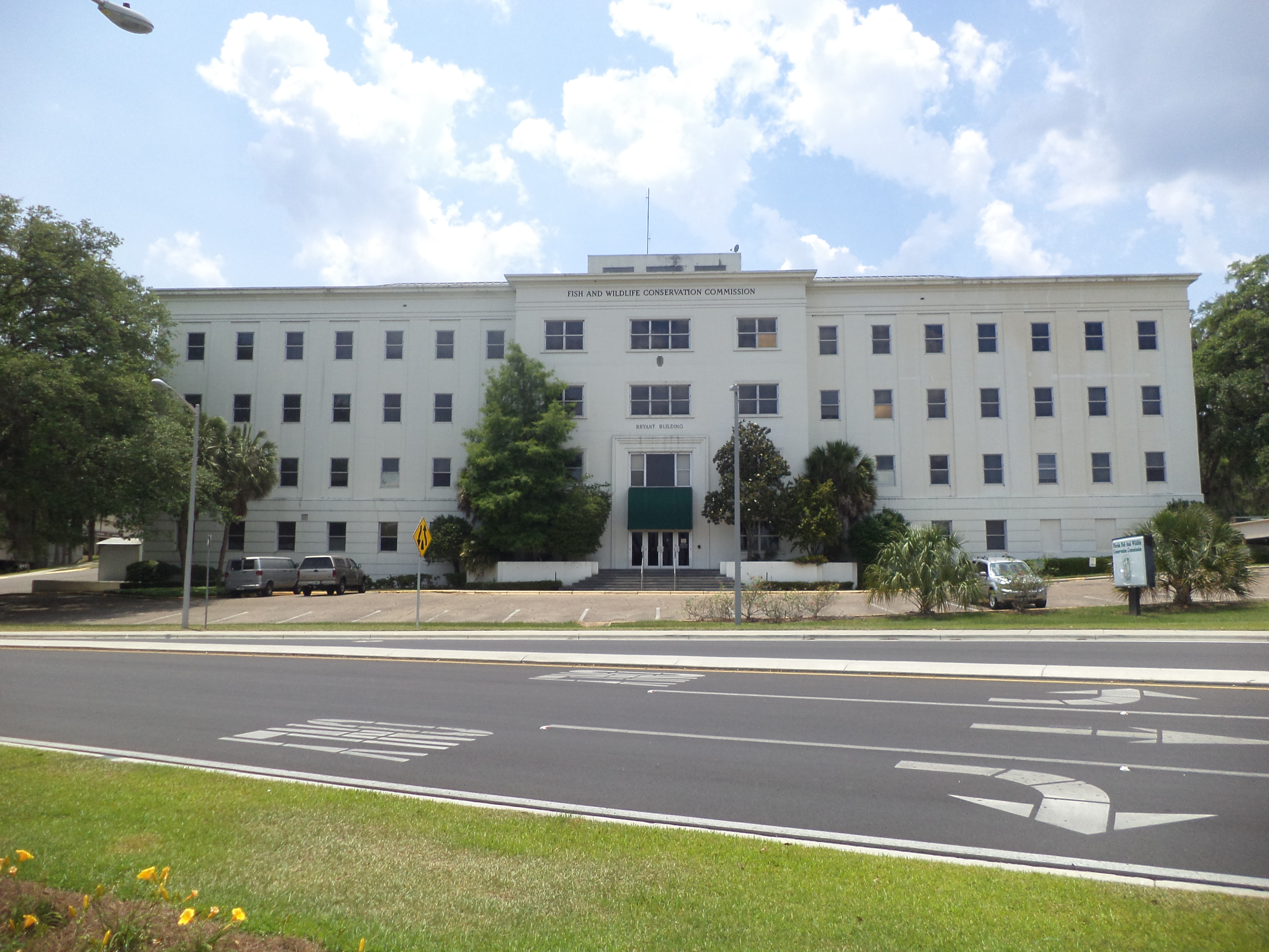 Florida Fish and Wildlife Conservation Commission, Bryant Building, 620 S. Meridian St., Tallahassee, Leon County, Florida